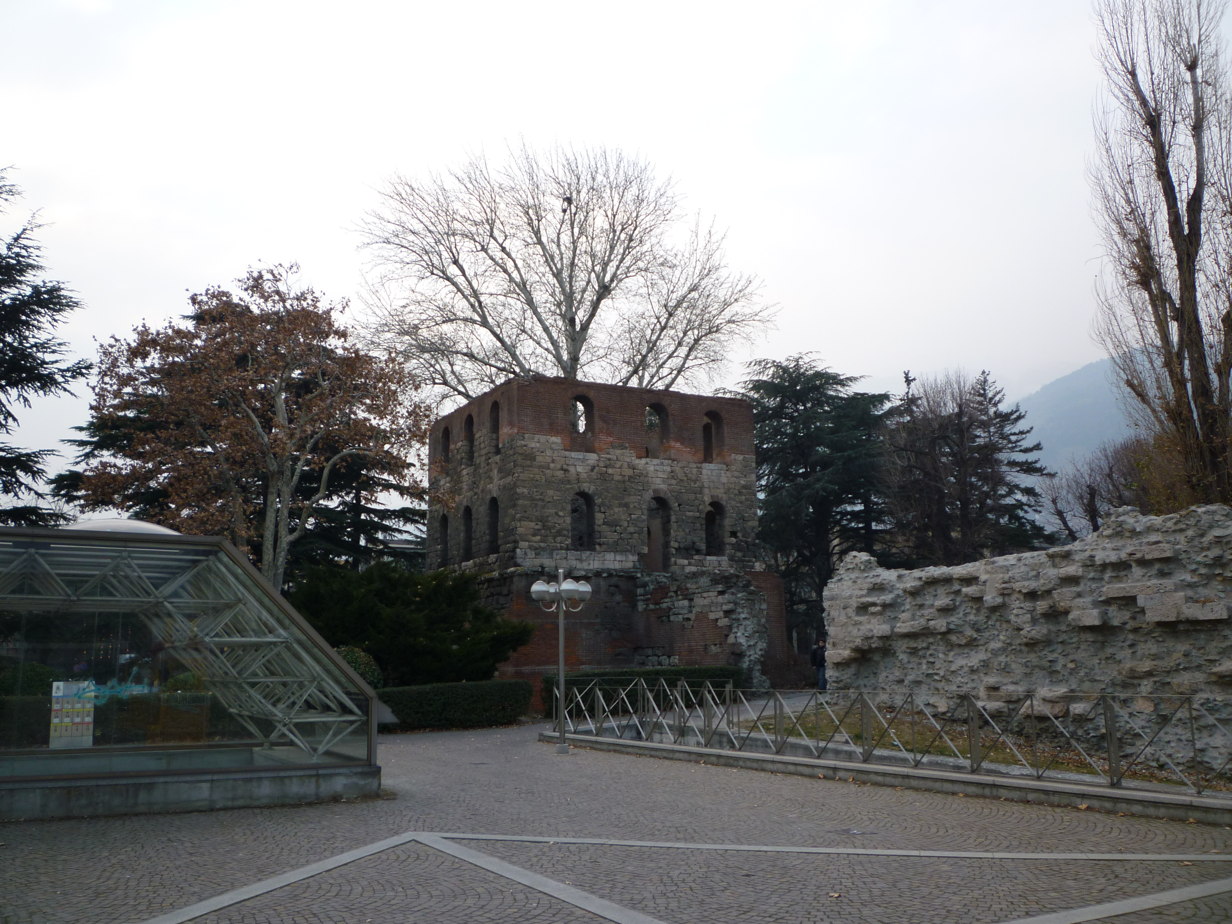 Tour du Pailleron - Aoste (Italy)